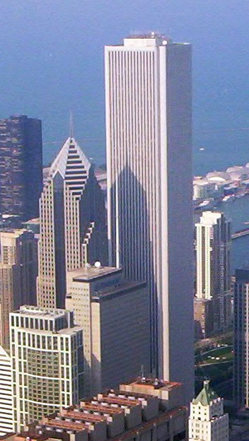 Two Prudential Plaza and Aon Center (Chicago) taken by User:AlleyViper54.